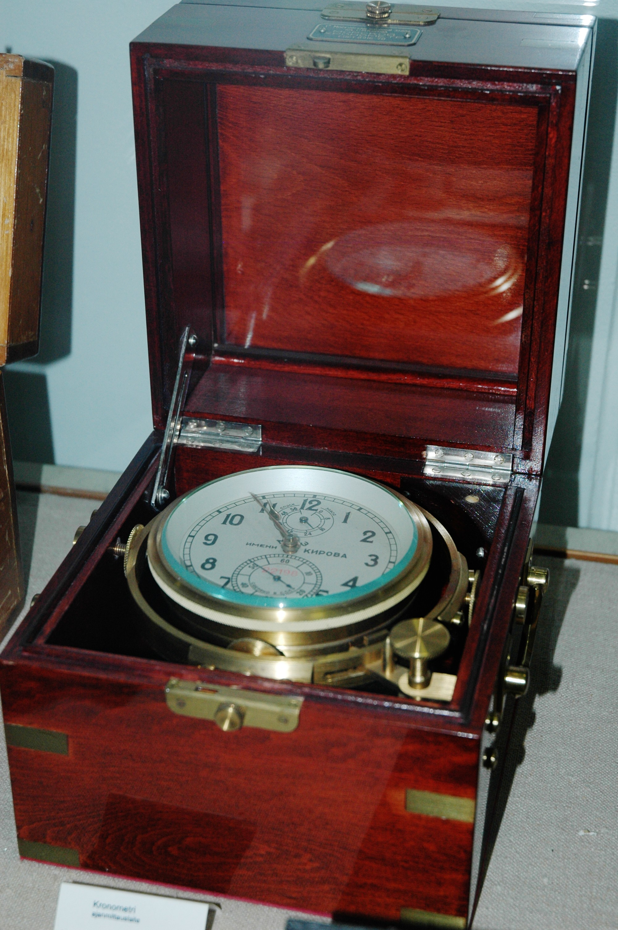 Nautical chronometer (Museum of the University of Applied Sciences: Kotka, Finland)